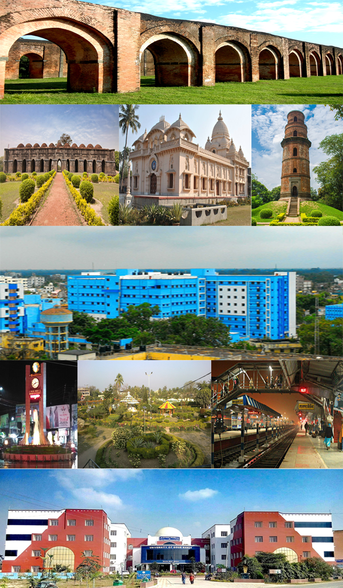 Malda Town Skyline top Adina Mosque, Gour, Ramkrishna Mission,Malada Medical College, Foara More, Park, University of Gour Banga